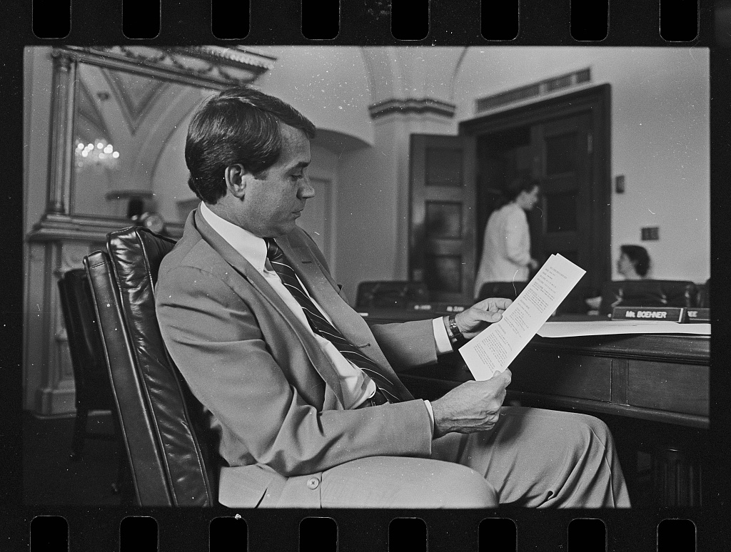 Representative John Boehner, three-quarter length portrait, facing right, seated at desk, reading a paper